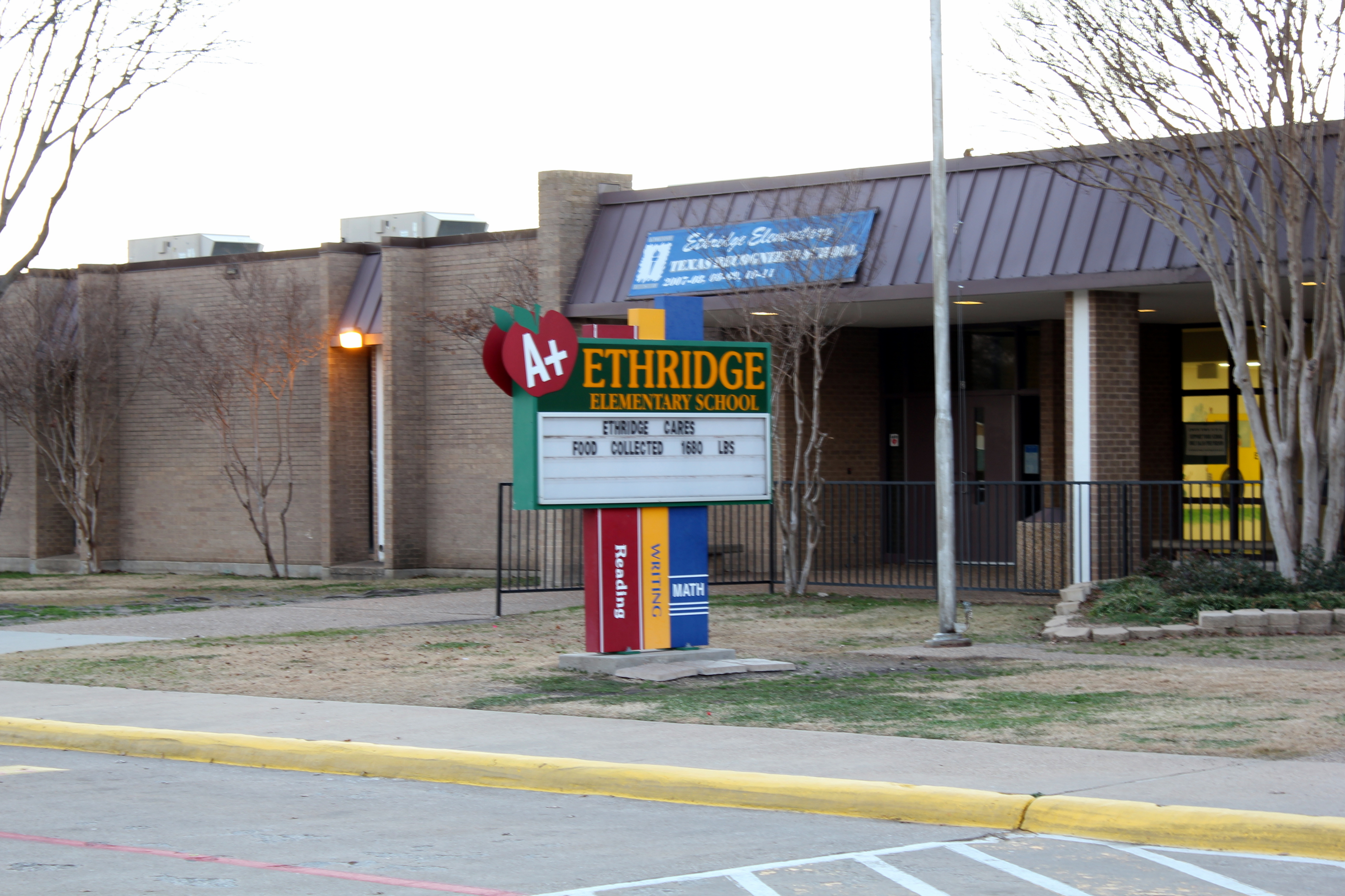 Front Entrance of Ethridge Elementary School with Marquee sign